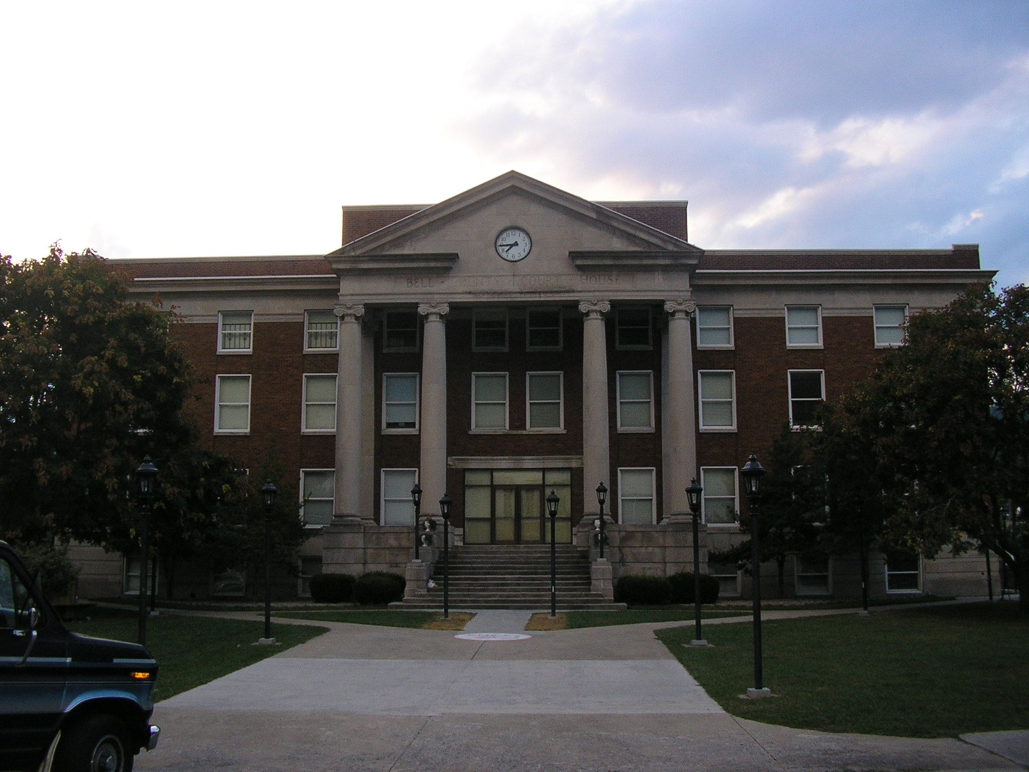 Bell County, Kentucky Courthouse